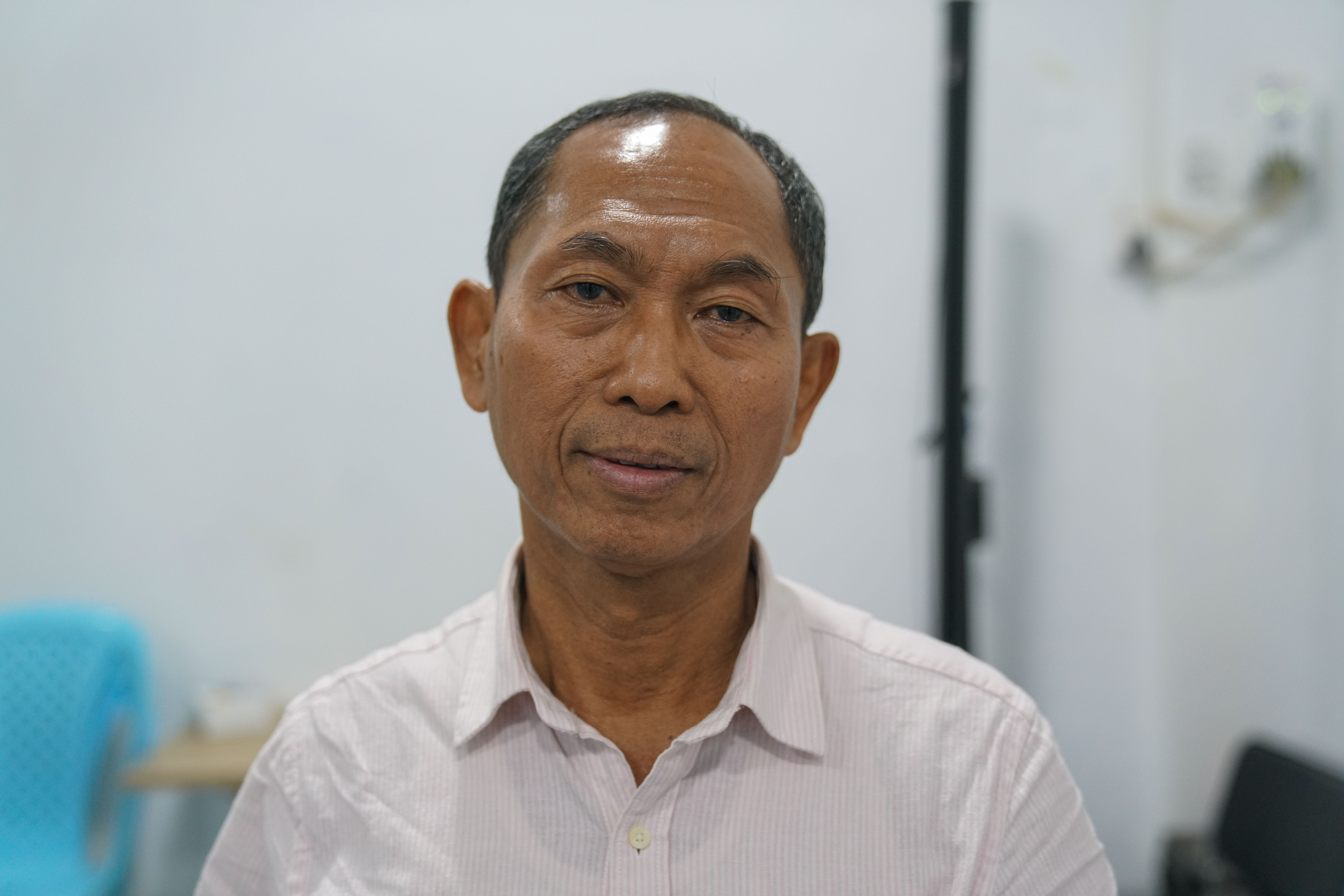 Ko Ko Gyi, veteran pro-democracy activist and founder of The People's Party